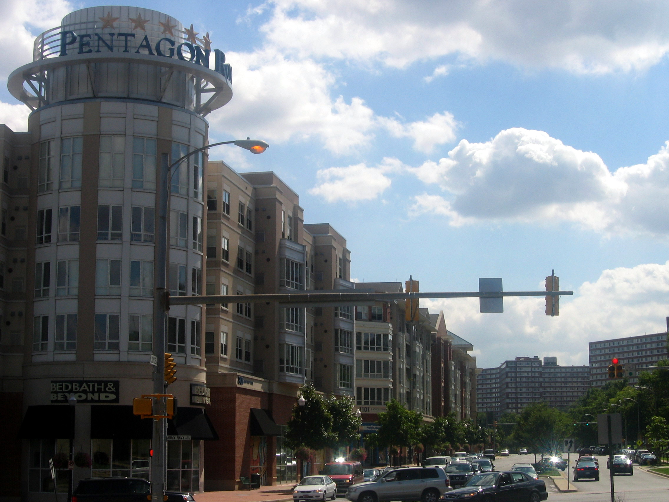 Pentagon Row shopping in Pentagon City neighborhood in Arlington, Virginia.